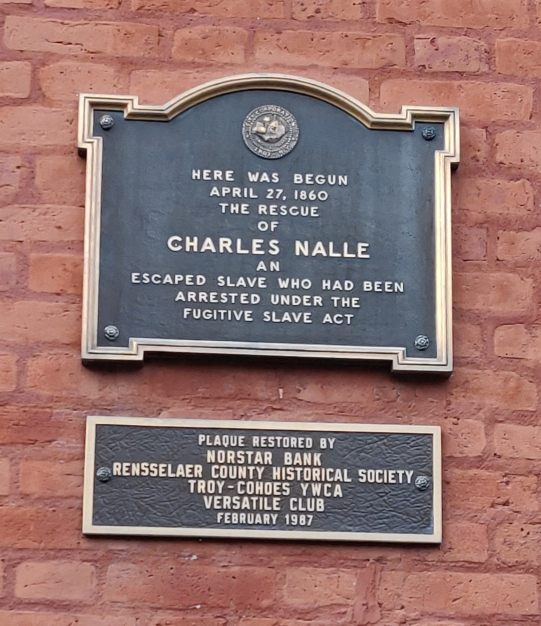 This plaque honors the escape of fugitive slave Charles Nalle on April 27, 1860, from the local Troy authorities who were going to send him back to his owner in Virginia. The local abolitionists of Troy raised money to buy his freedom.